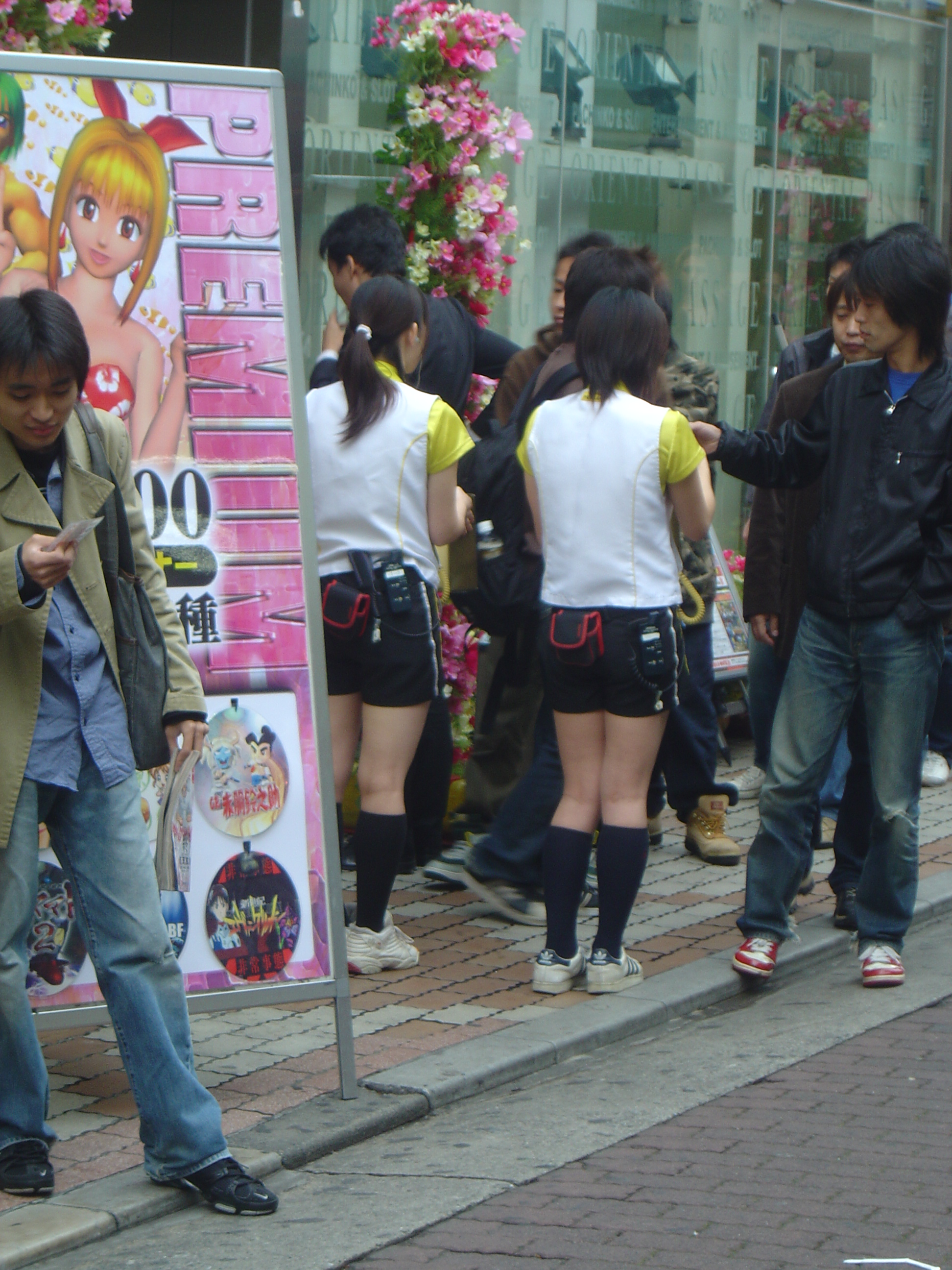 Short-skirted girls advertising (I think?) a Pachinko parlor in Ueno, Tōkyō